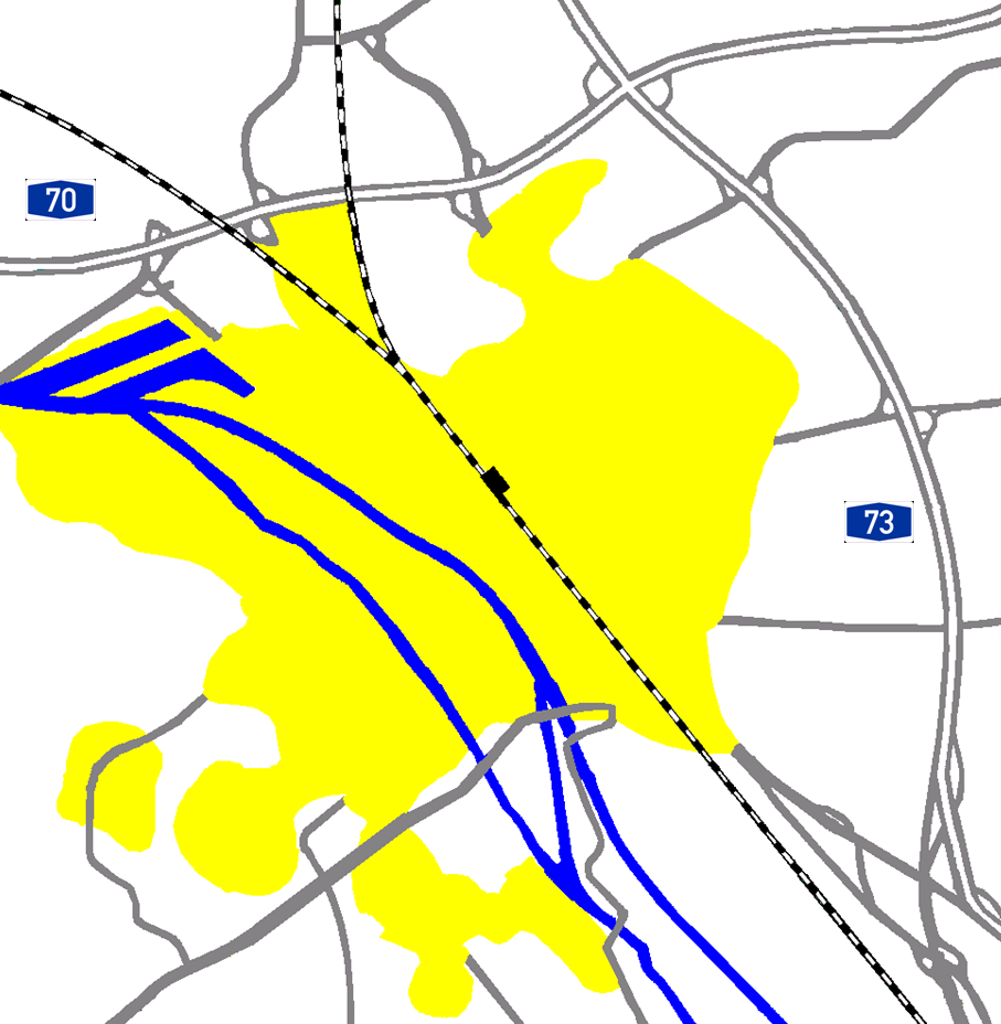 Autobahnen (higways of Bamberg, Upper Franconia, Germany